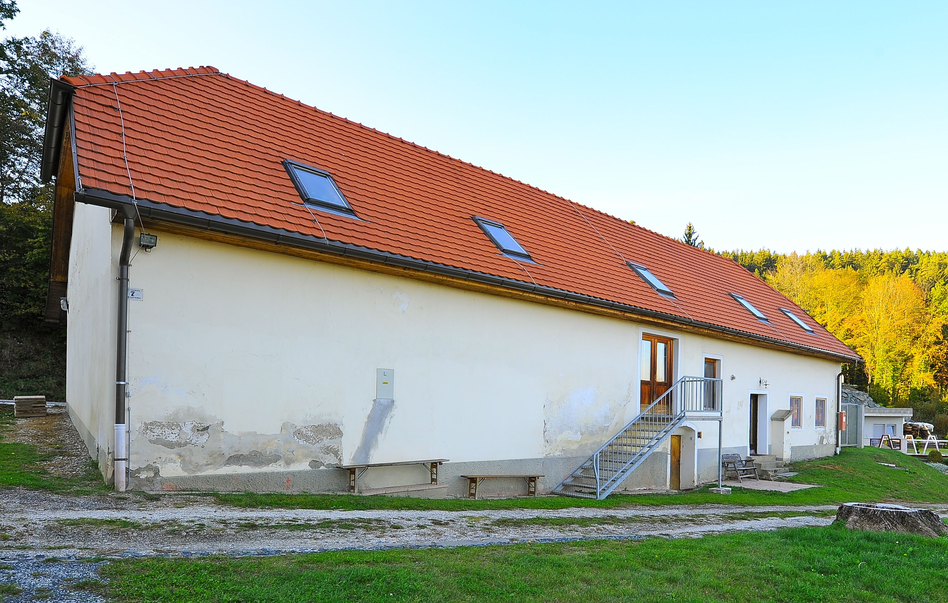 Sacristan house in Sankt Thomas #7, market town Magdalensberg, district Klagenfurt Land, Carinthia, Austria, EU